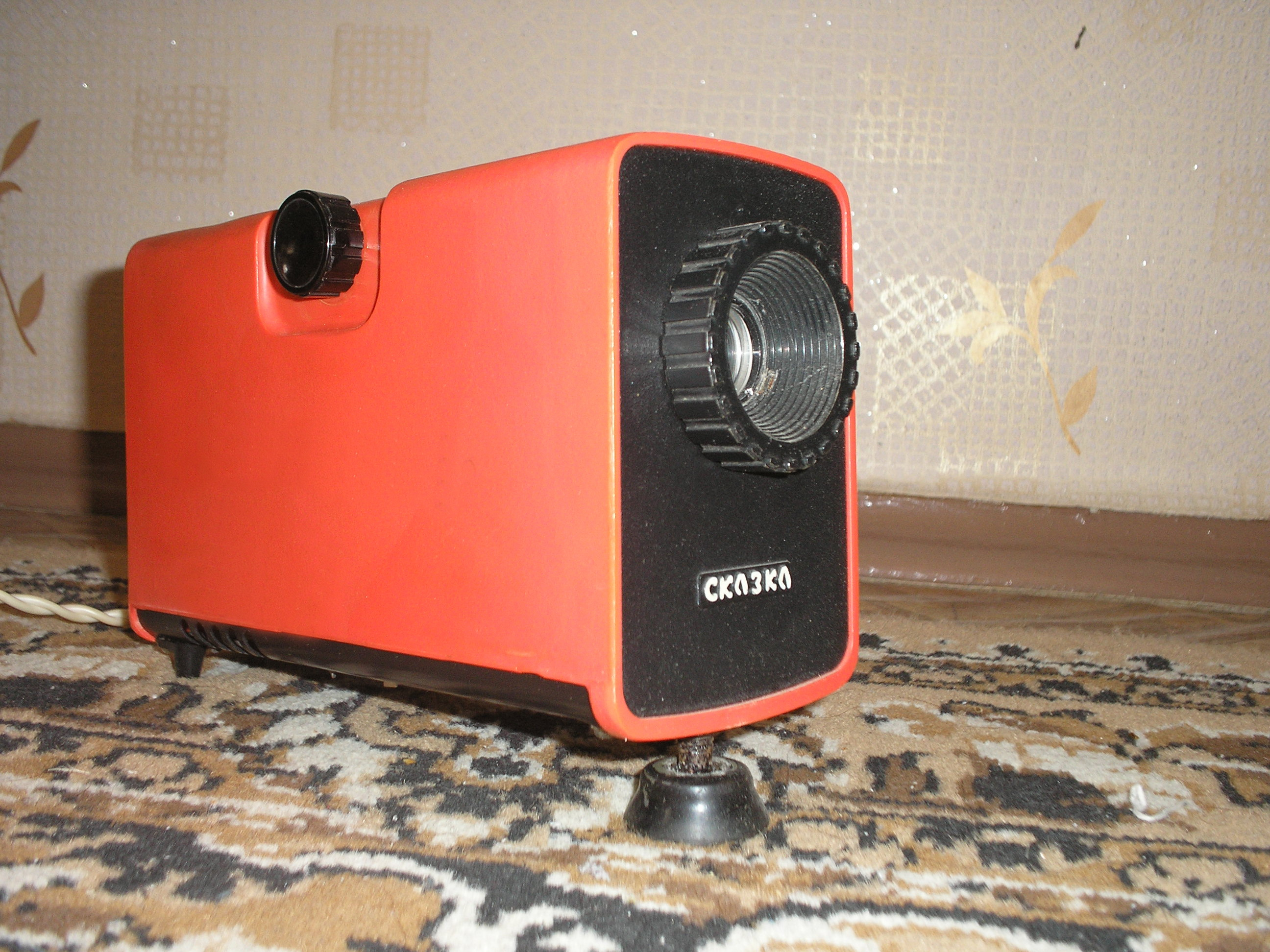 Slide projector "Skazka" (USSR)